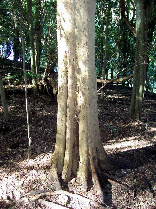 Aphananthe philippinensis at Wingham Brush, Australia